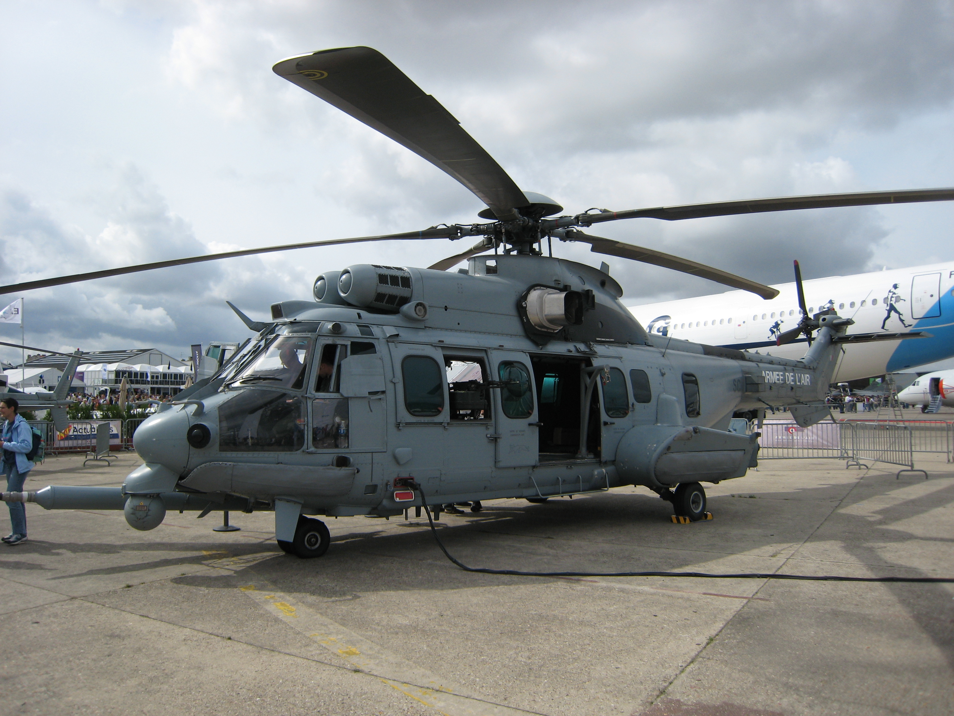 Helicopter EC 725 Caracal at Paris Air Show 2007